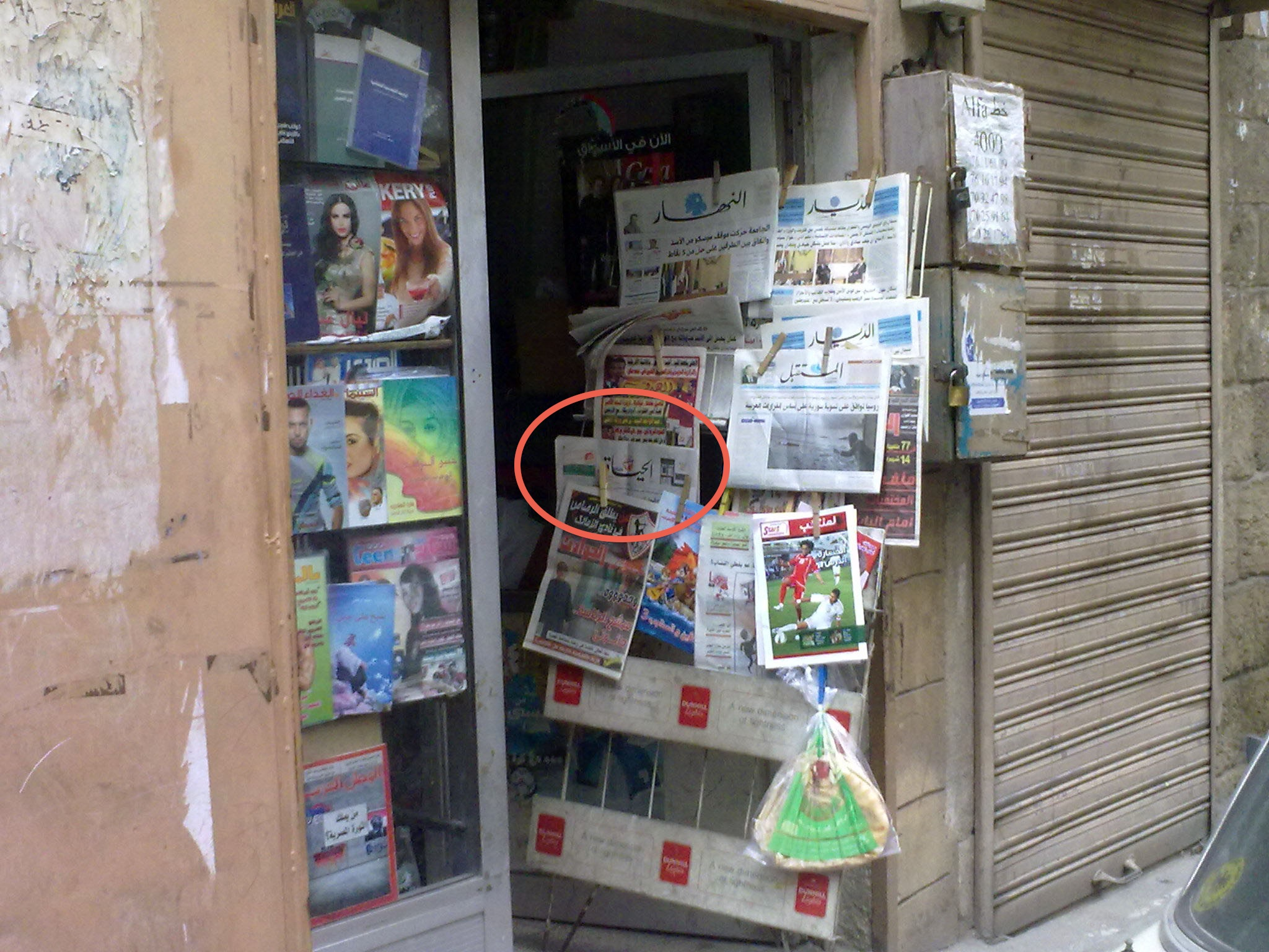 Newsstand, Tripoli, Lebanon. Newspapers on display include the international daily Al-Hayat.